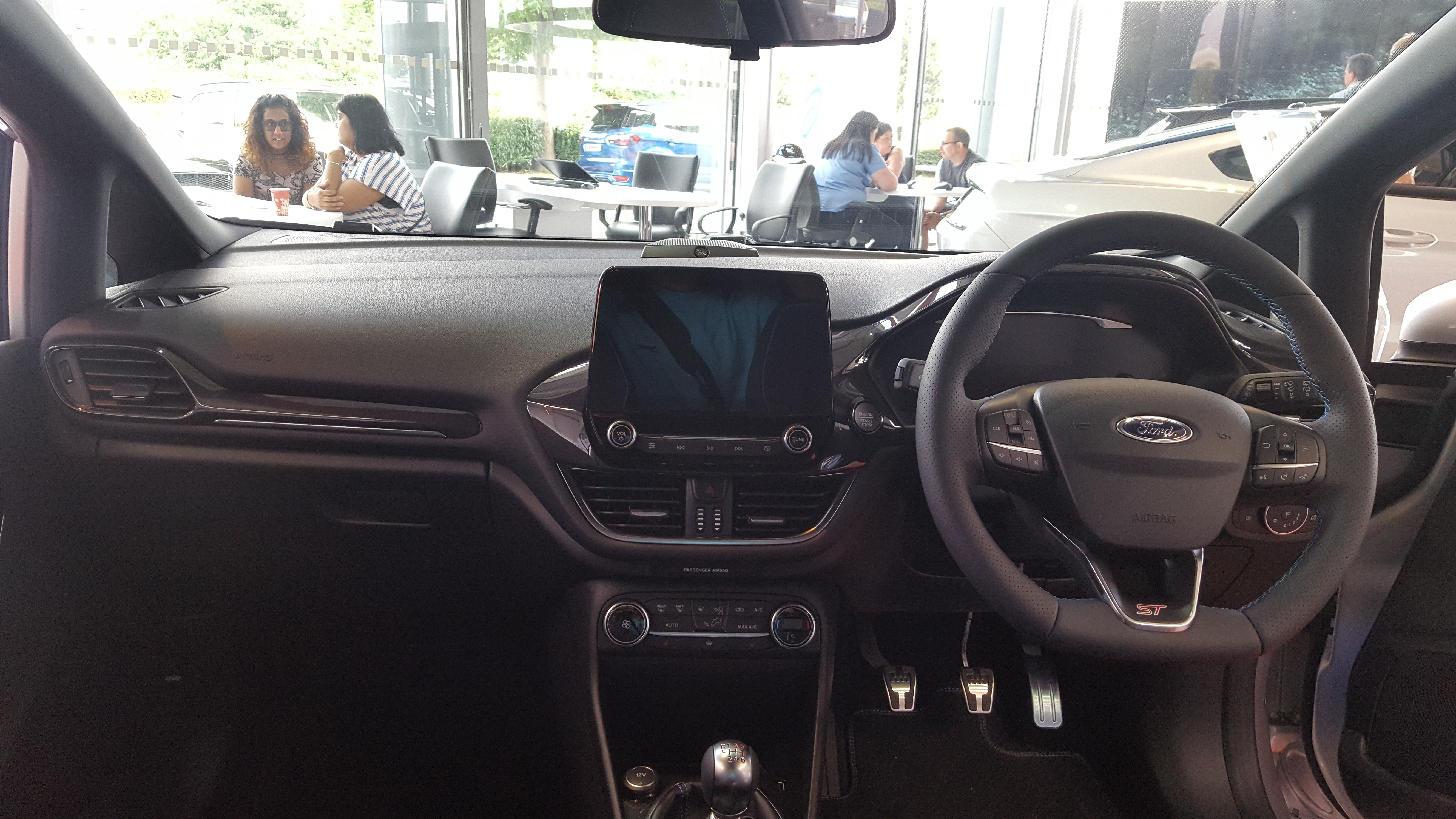 2018 Ford Fiesta ST 1.5 Interior Taken in Leamington Spa